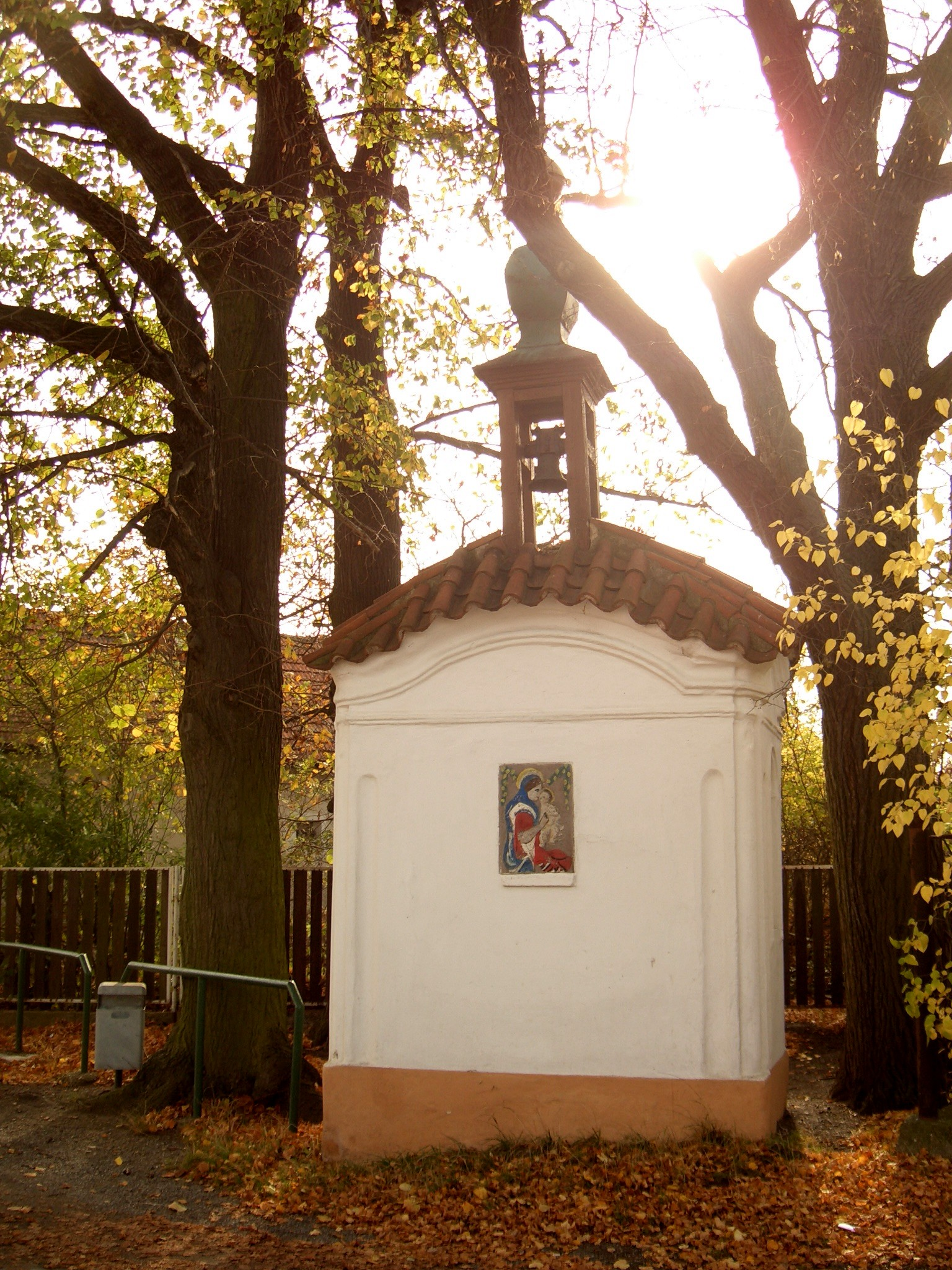 Chaple at square in Řitka, Prague-West district